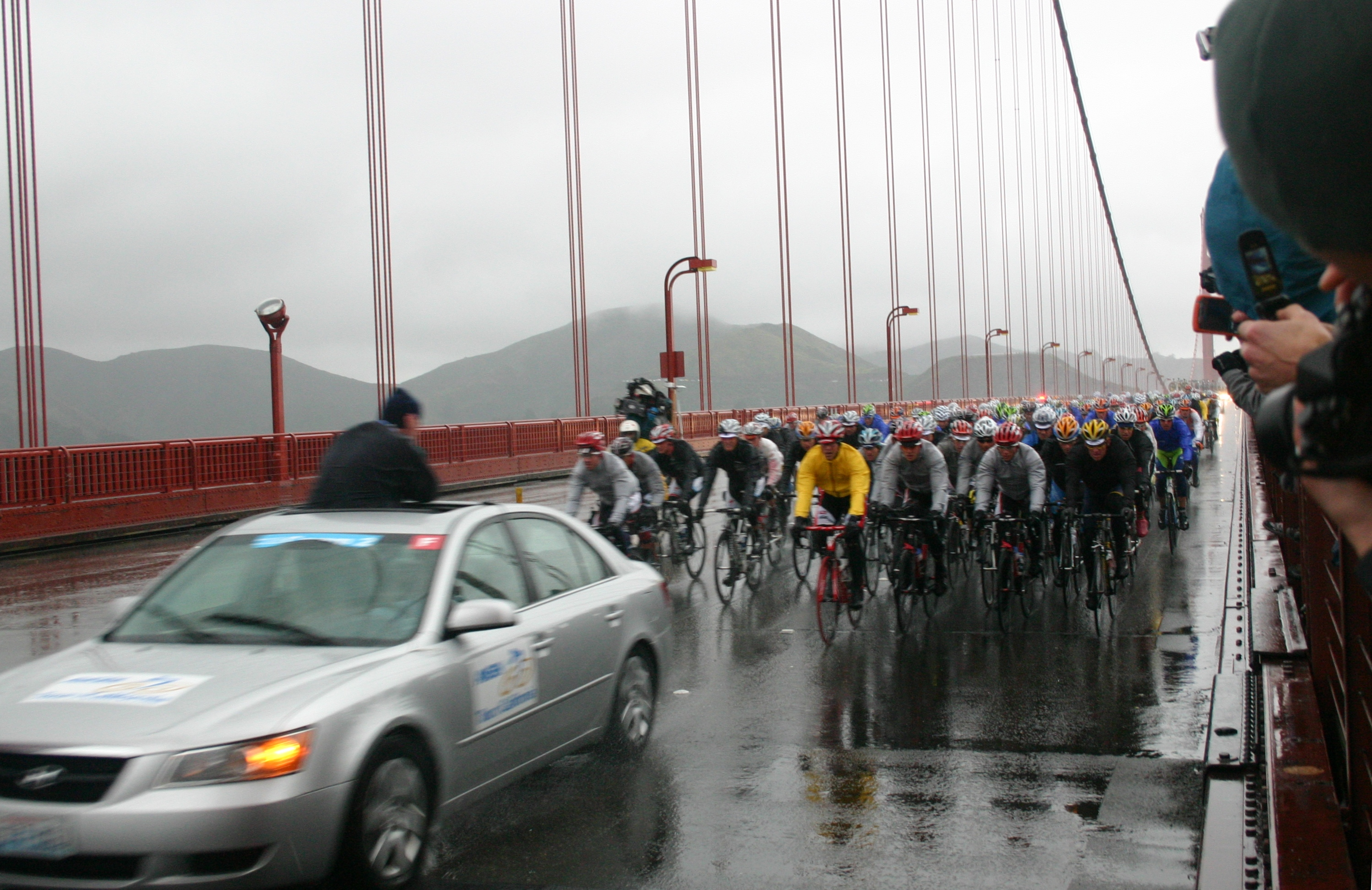 The Peloton riding over the Golden Gate Bridge in Stage 2 of the 2009 Tour of California